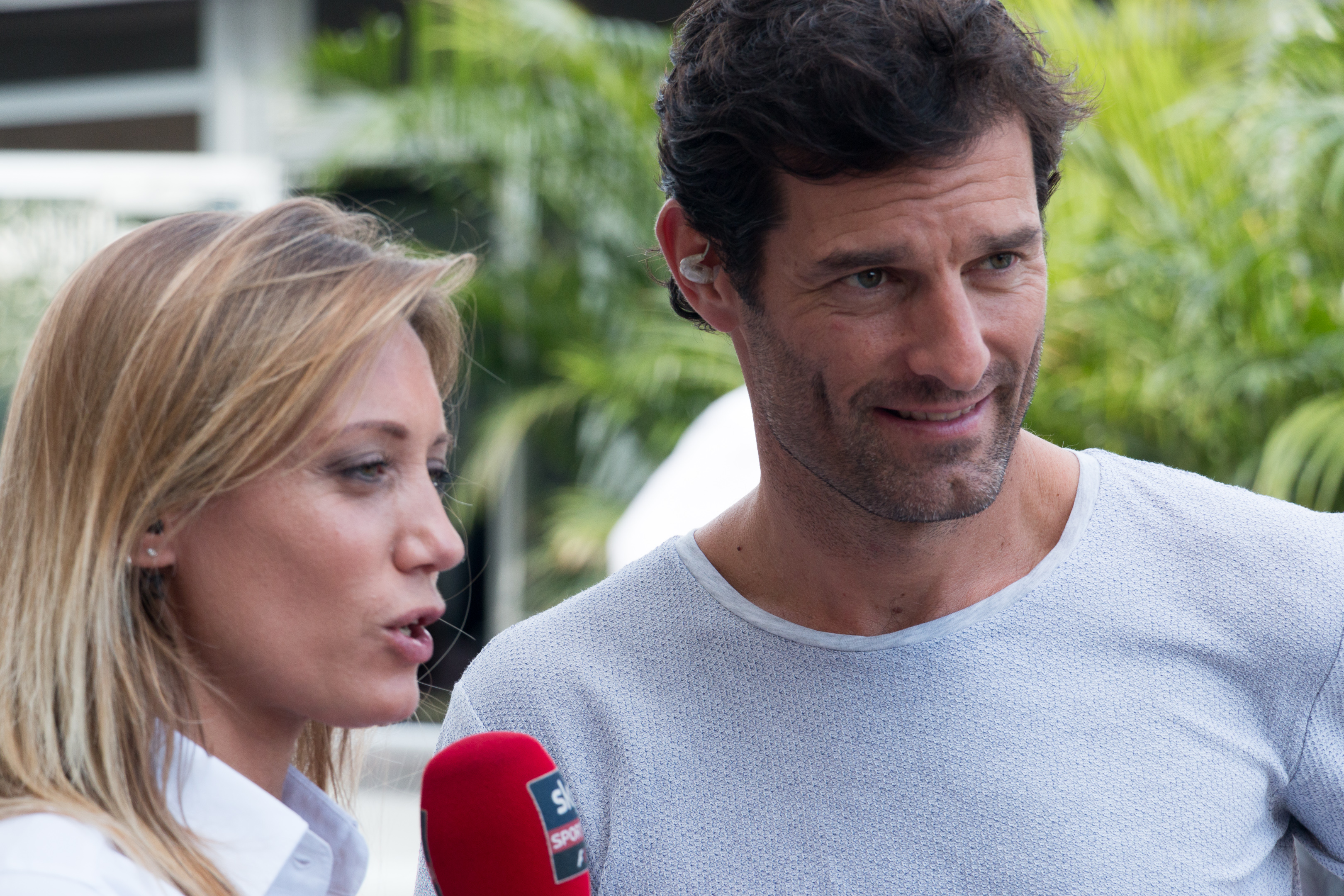 USGP Austin Oct 2017